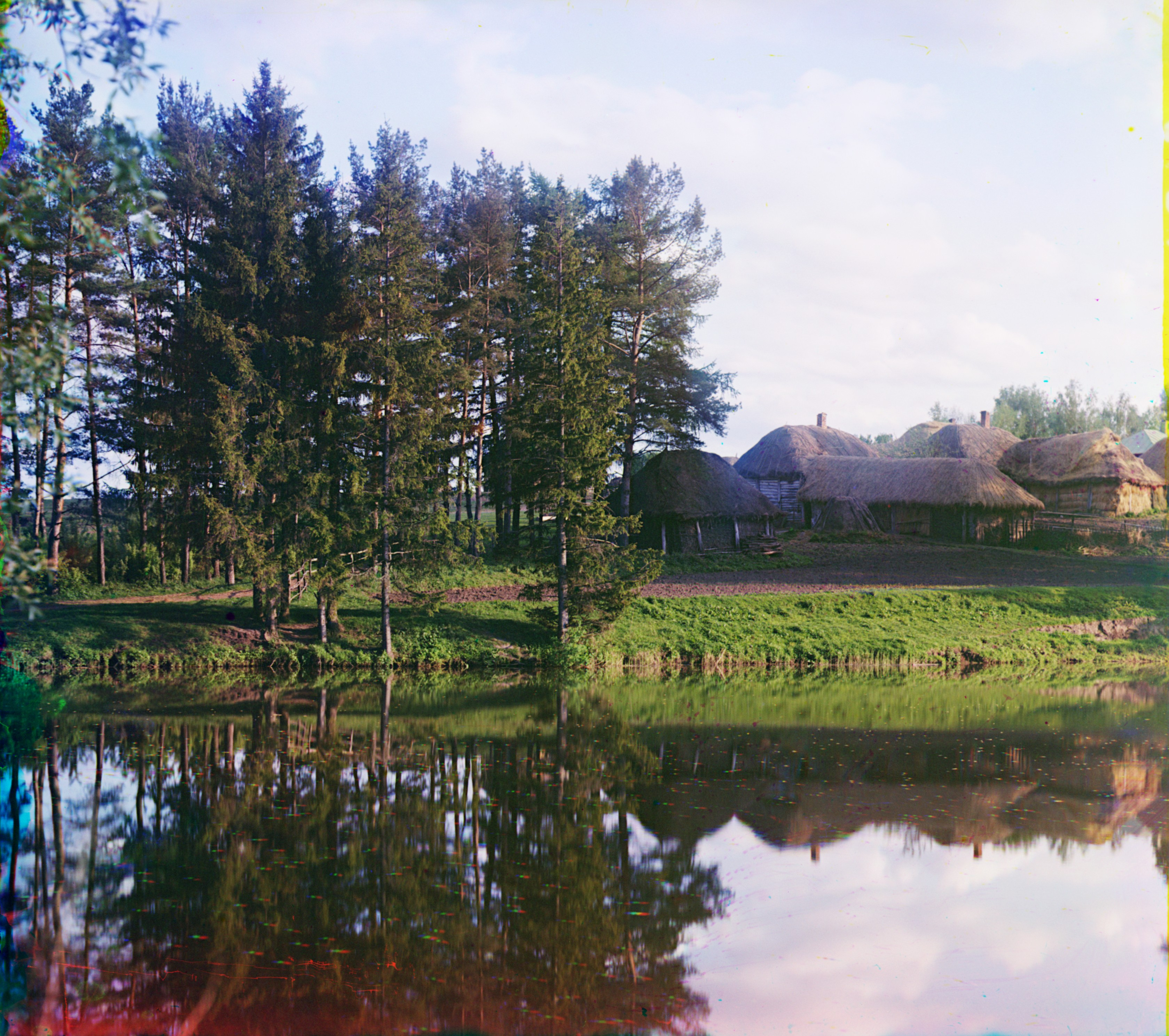 In Ukraine. Album: Various views and studies, Russian Empire and Europe, LOT 10333, no. 13. Digital color composite made for the Library by Blaise Agüera y Arcas, 2004.